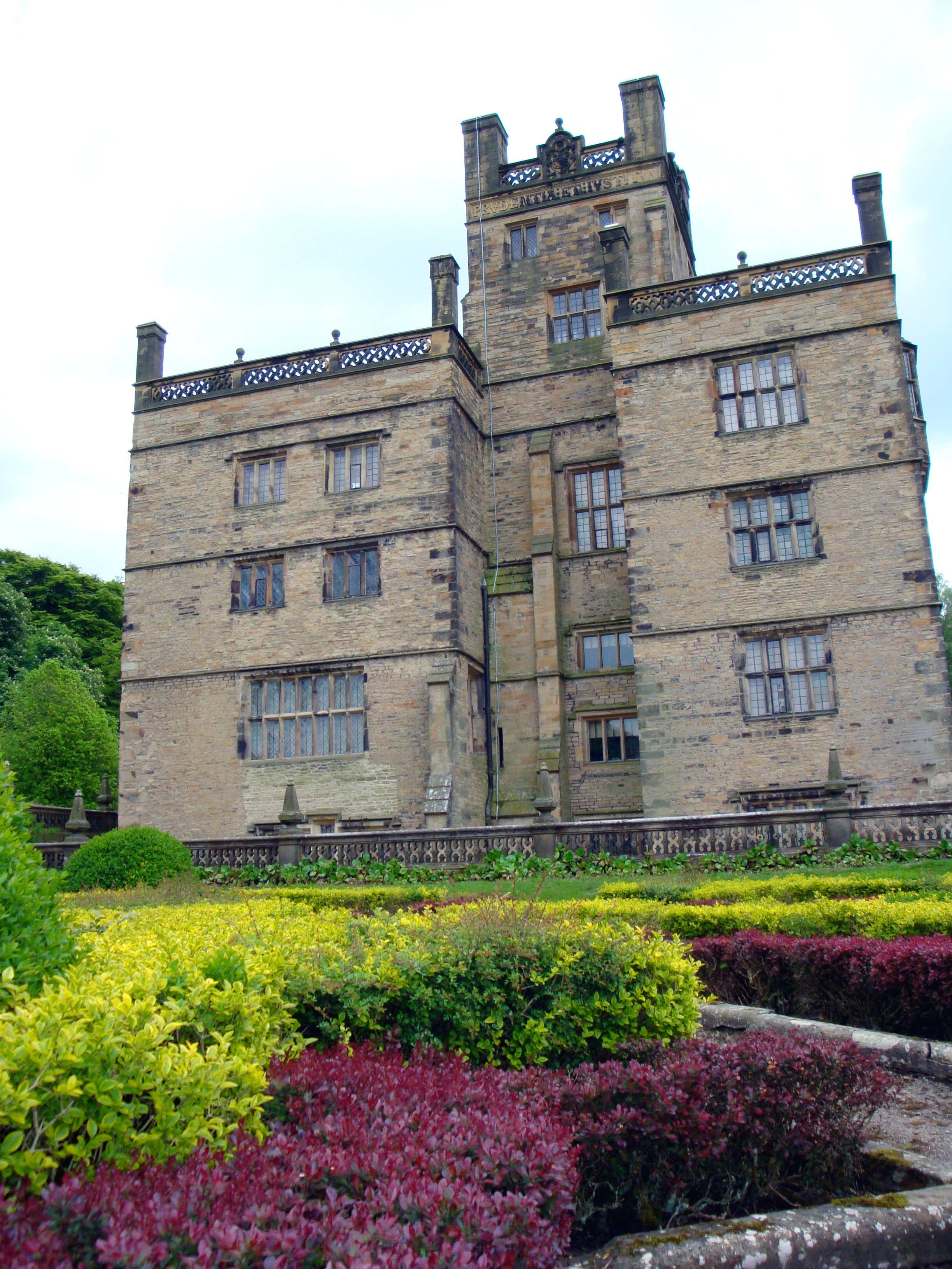 Gawthorpe Hall, back